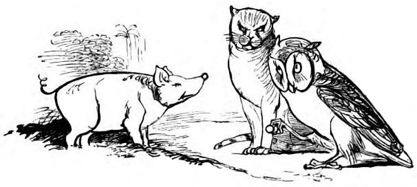 Edward Lear: The Owl and the Pussy Cat